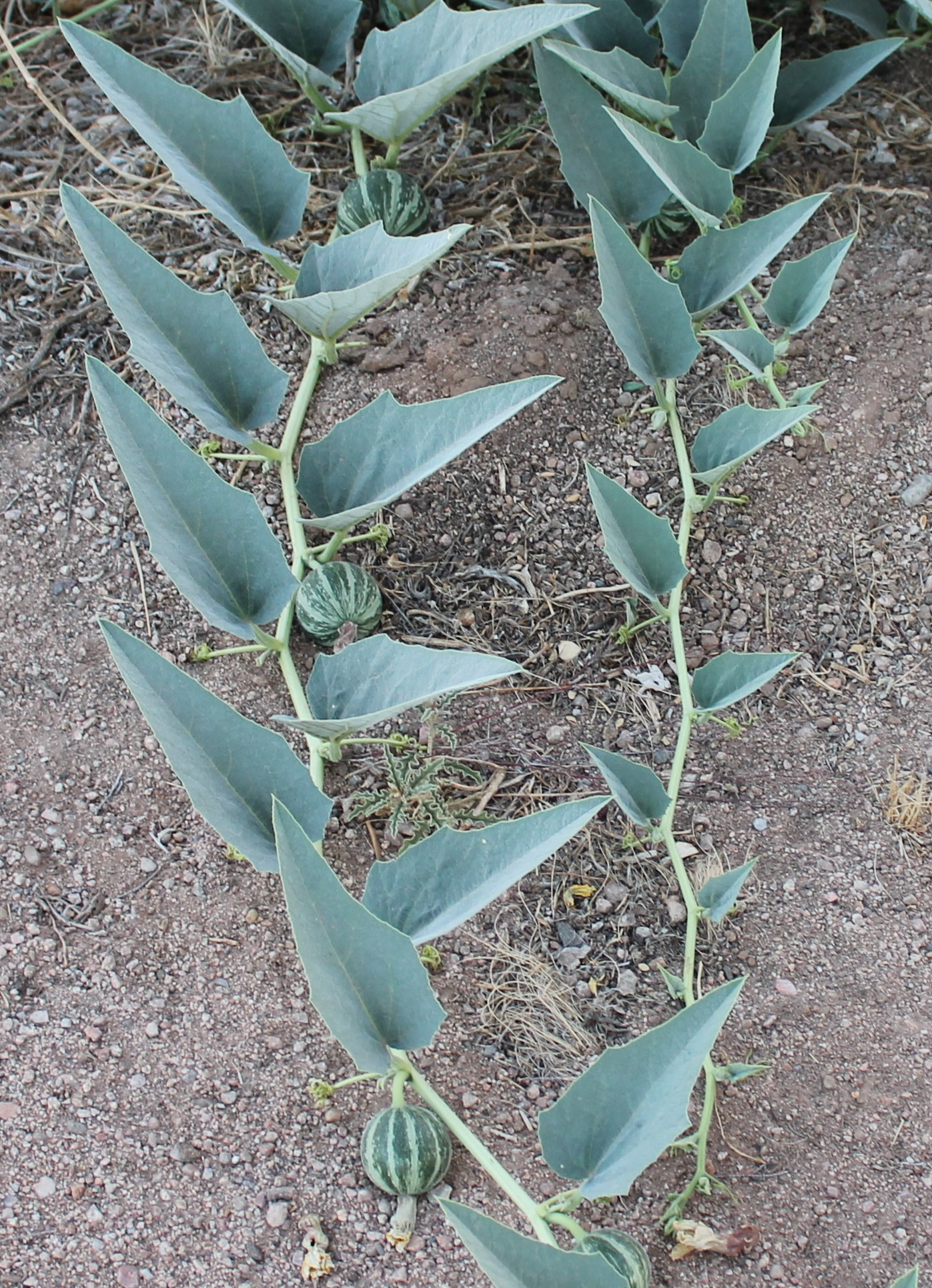 Buffalo gourd Albuquerque, New Mexico